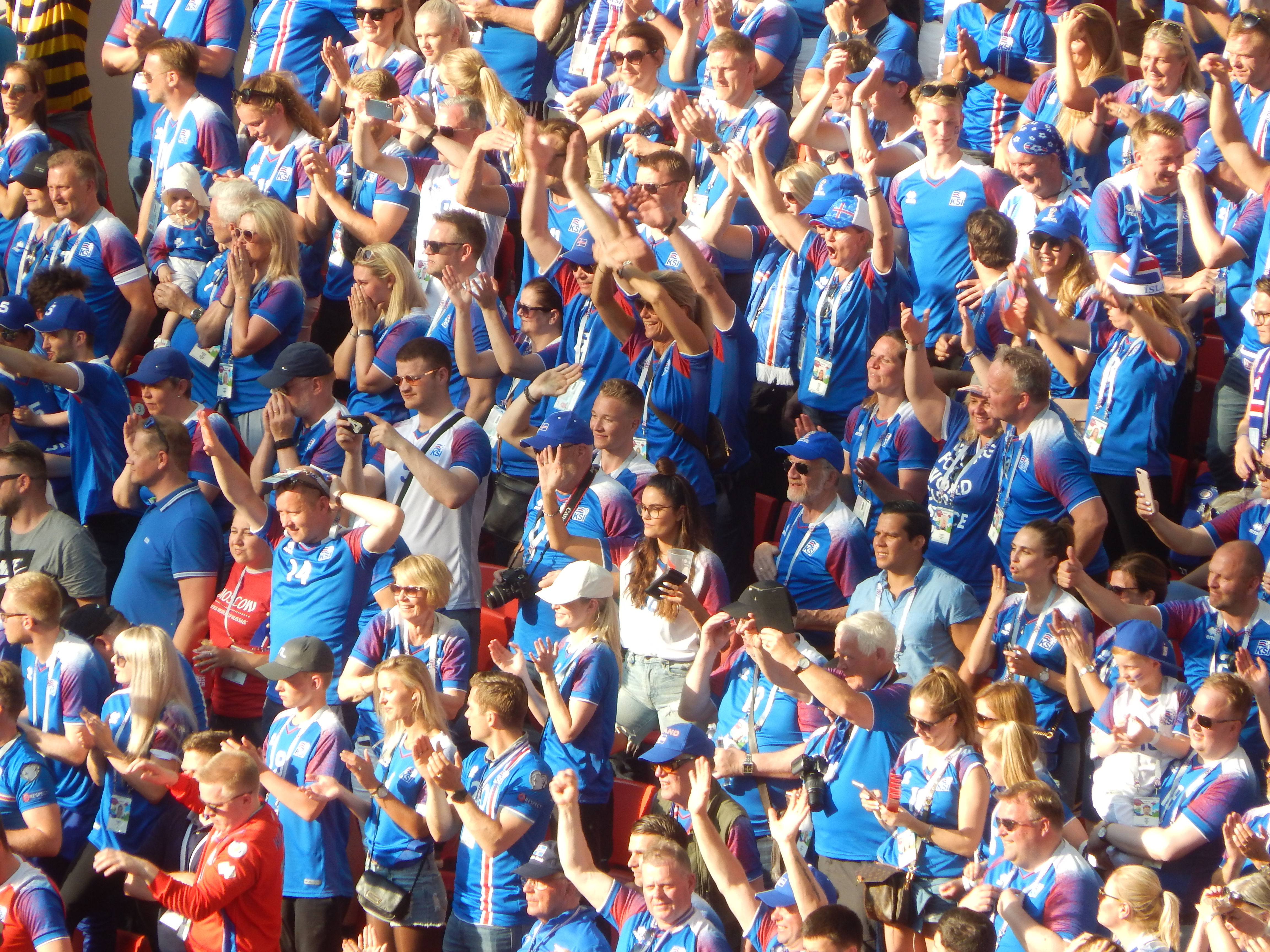 FIFA World Cup 2018, Group D, Argentina vs. Iceland